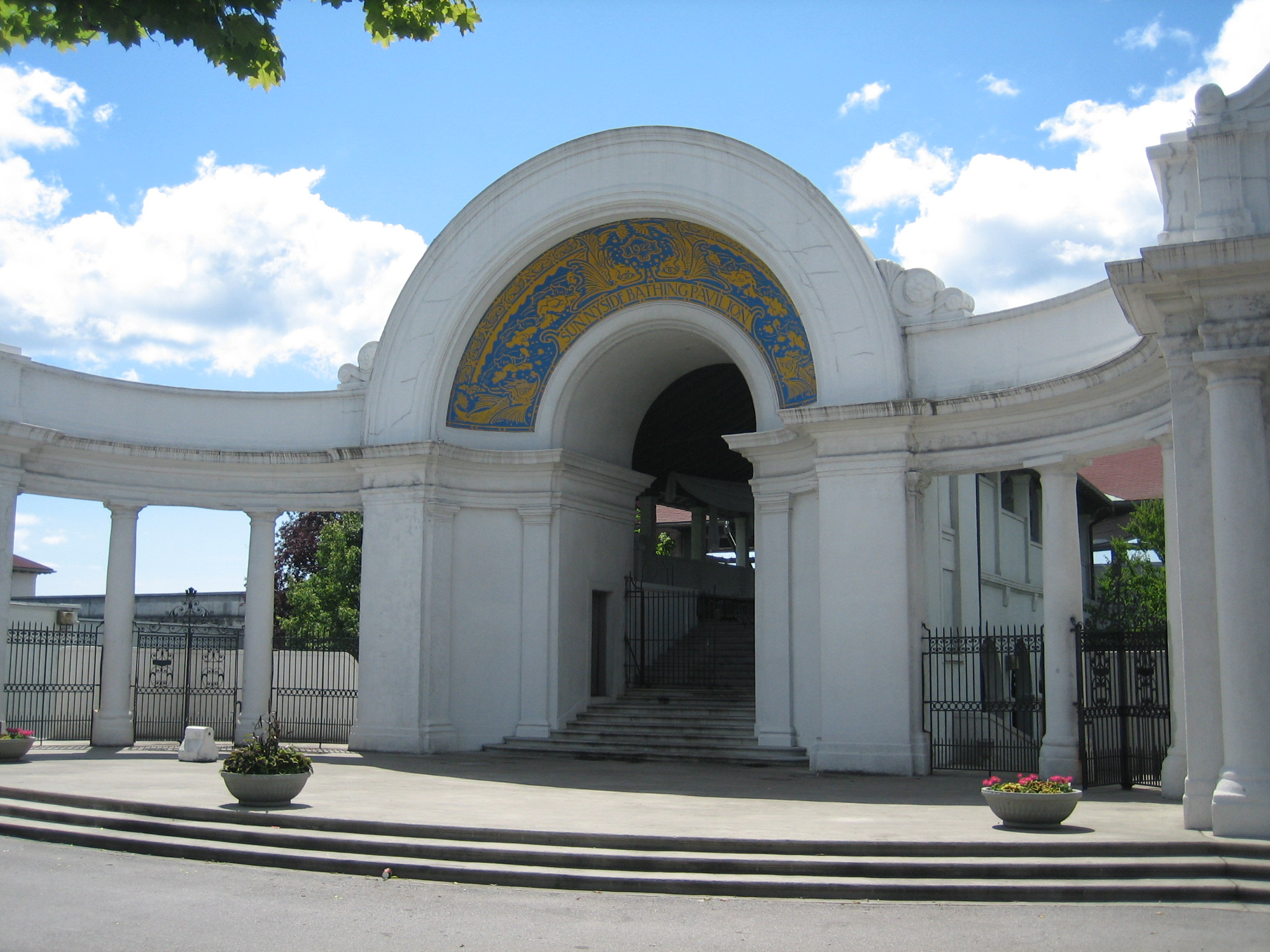 Sunnyside Pool and Bathing Pavilion at the former Sunnyside Amusement Park